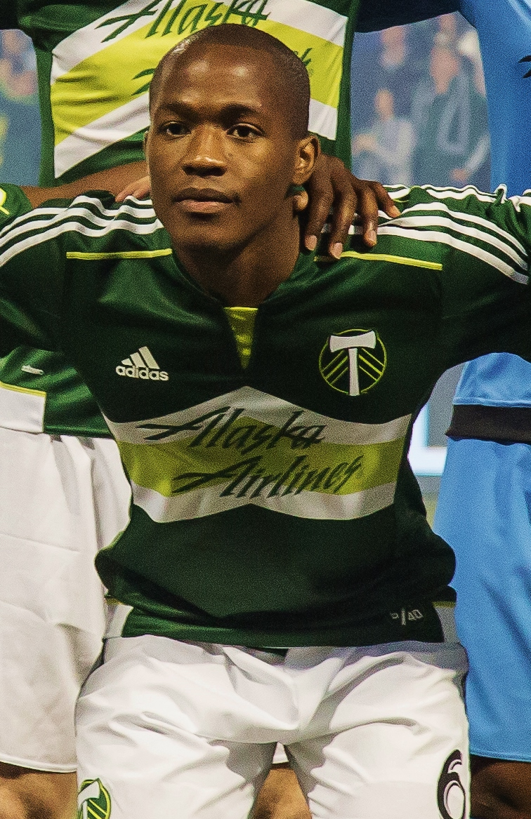 Darlington Nagbe